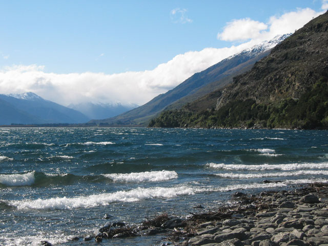 Looking North from roadside park along Lake Wanaka's eastern shoreline, August 2005 By John Holder, from